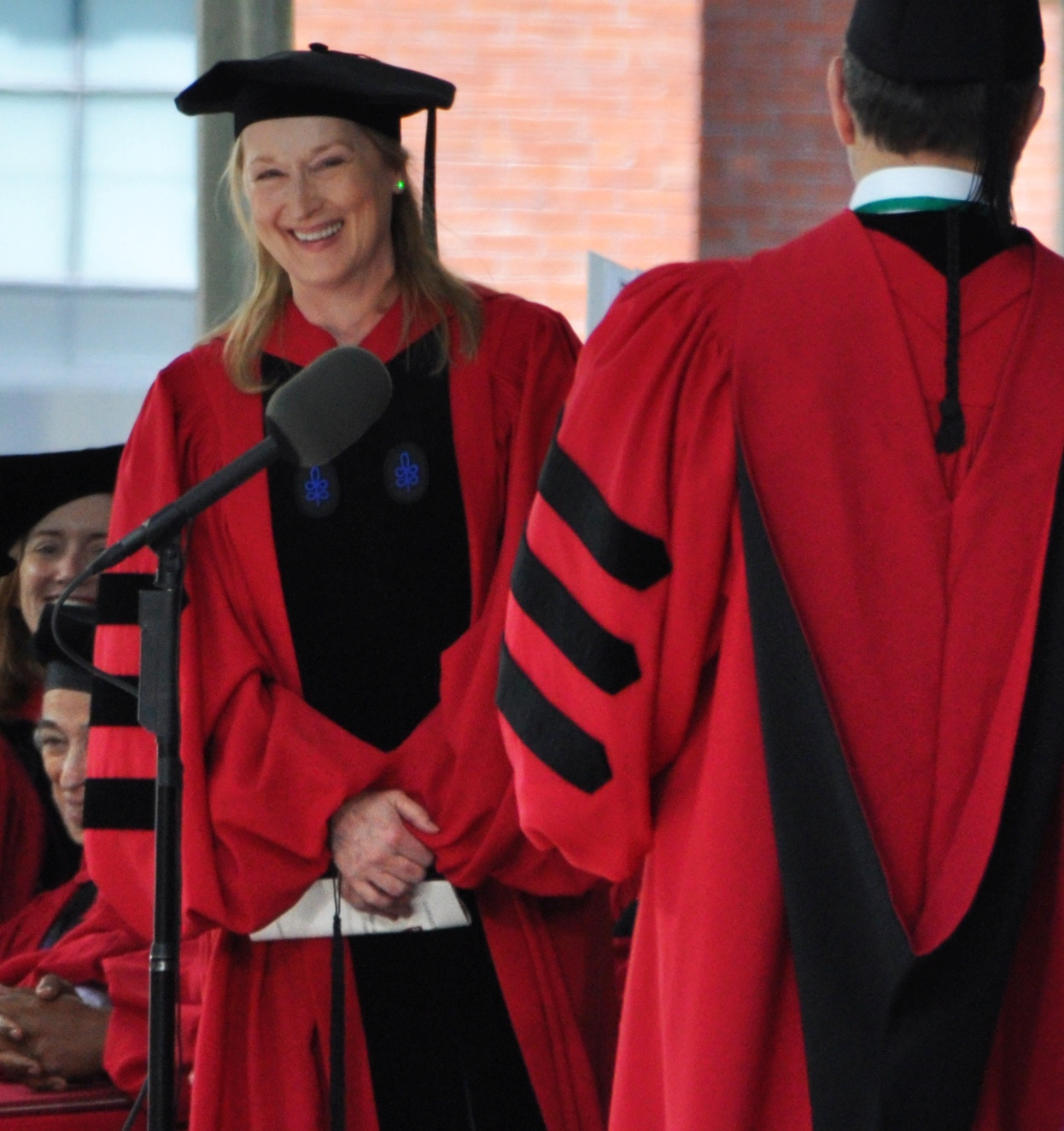 Meryl Streep receiving honorary degree from Harvard University. Harvard Commencement